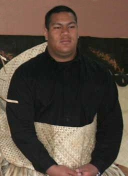 Prince Ata in mourning dress for his recently deceased grandfather, king Tāufaʻāhau Tupou IV in 2006.